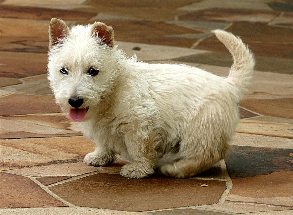 A white Scottish Terrier puppy